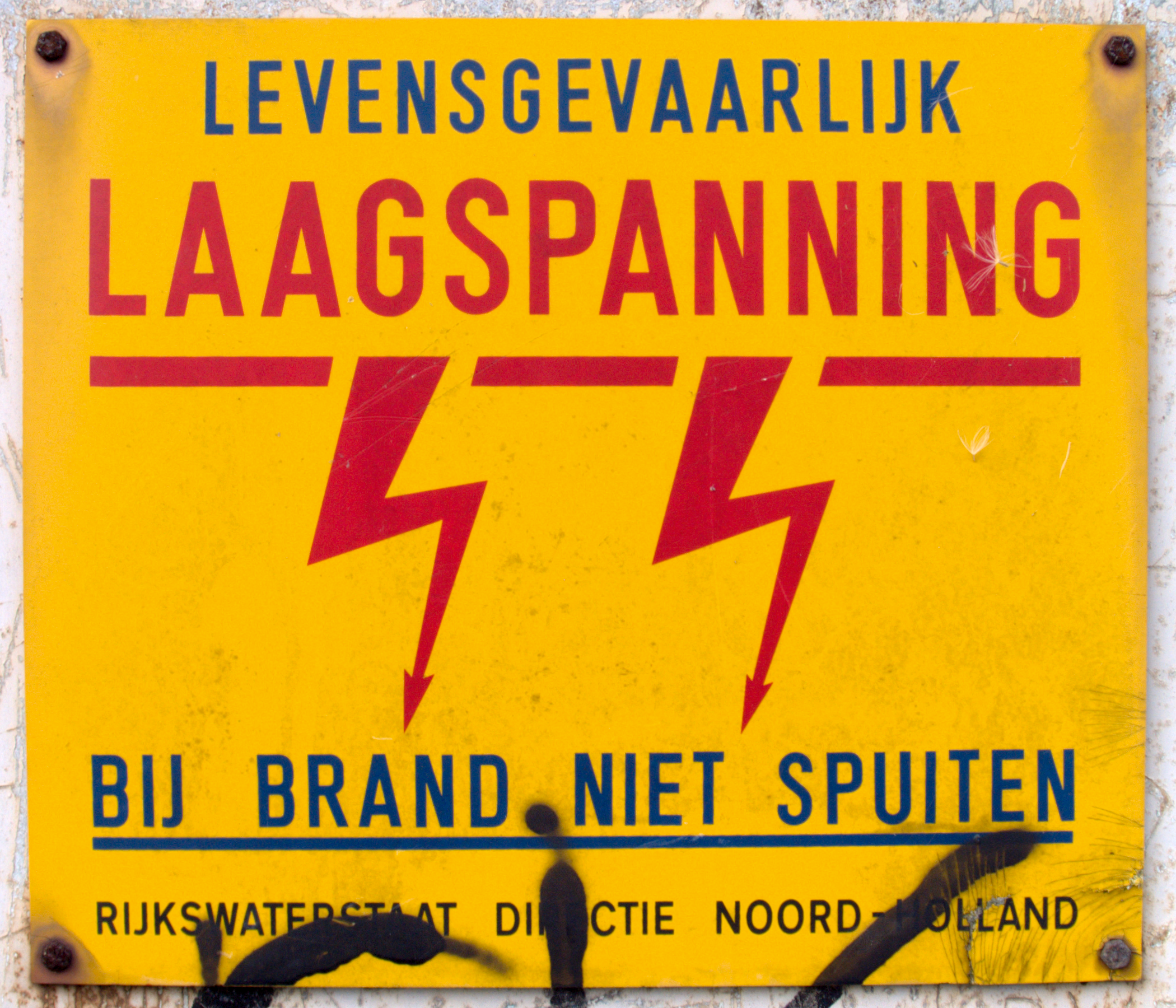 Low voltage warning sign in Dutch.